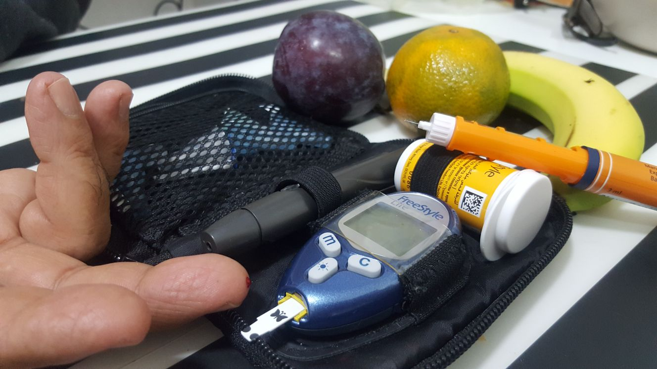 A device for monitoring blood sugar, check blood sugar using a glucose meter device, insulin and sugar with natural fruits.